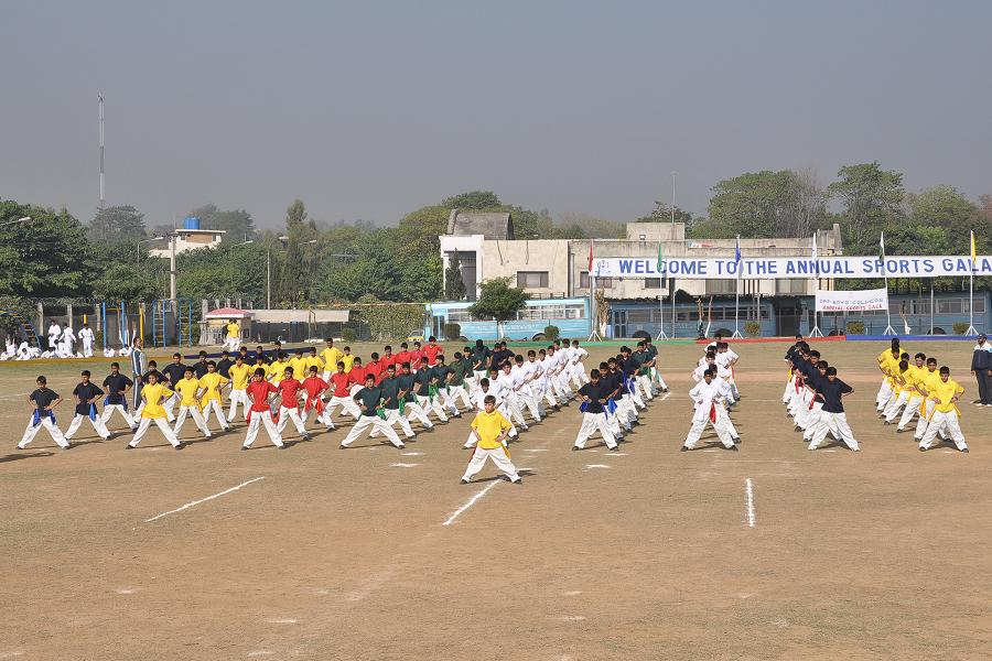 Photo of the PT Display by Junior Students at the Annual Sports Gala 2012